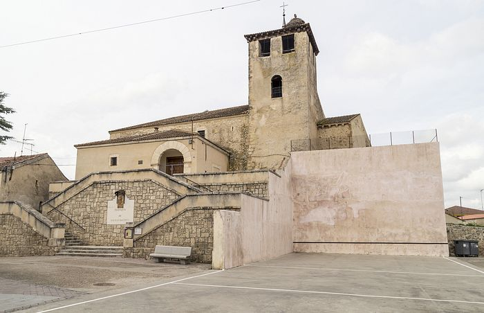 Iglesia con frontón